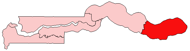 Map of The Gambia showing Upper River Division; created with the GIMP. Made by User:Acntx